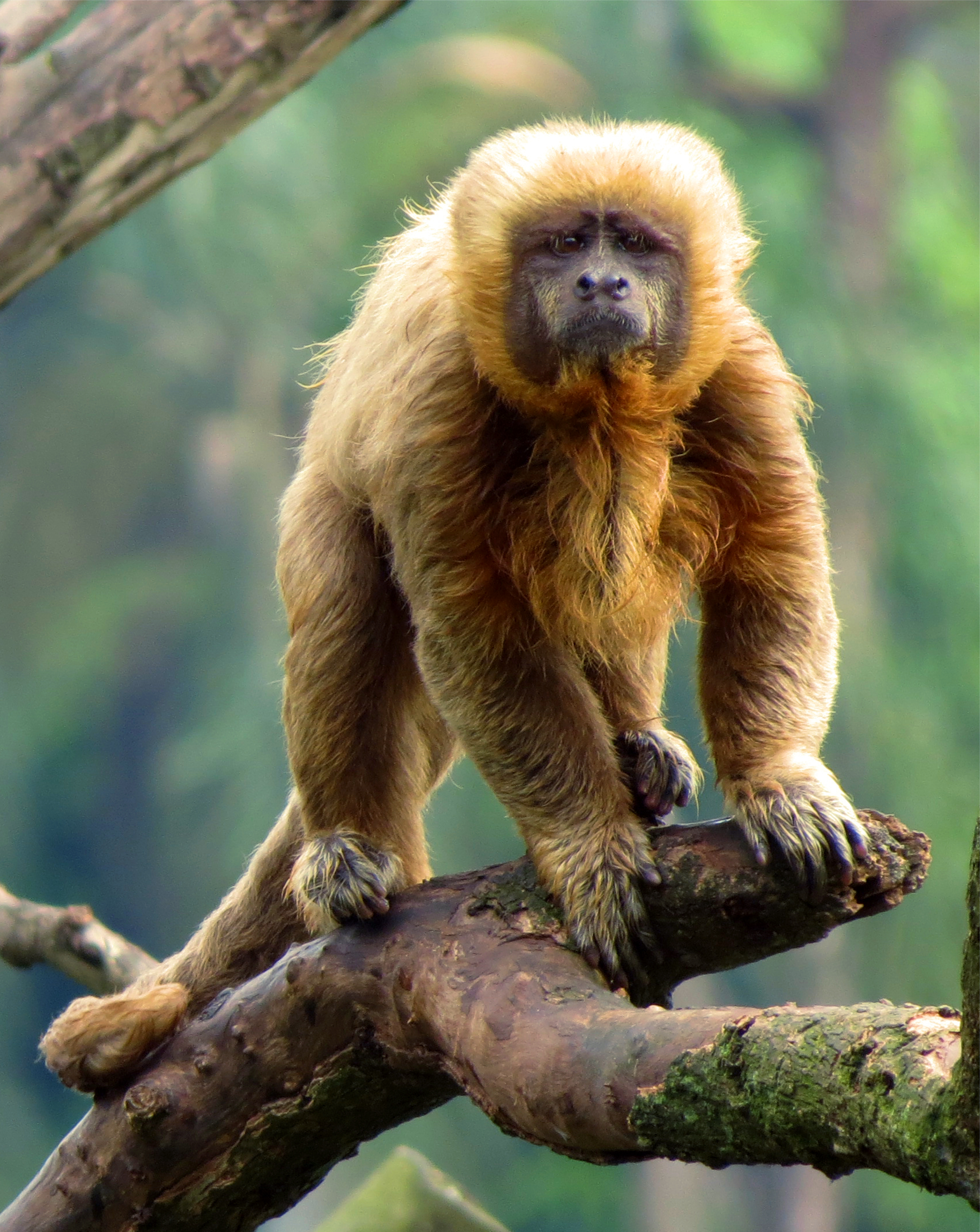 Male golden capuchin (Sapajus flavius) in São Paulo Zoo.